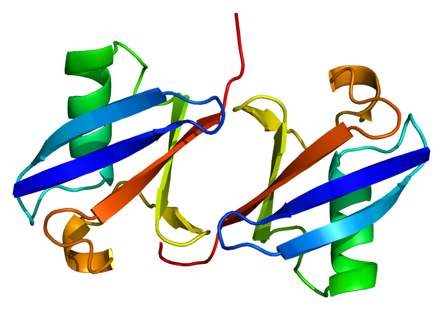 Structure of the UBC protein. Based on PyMOL rendering of PDB 1aar.